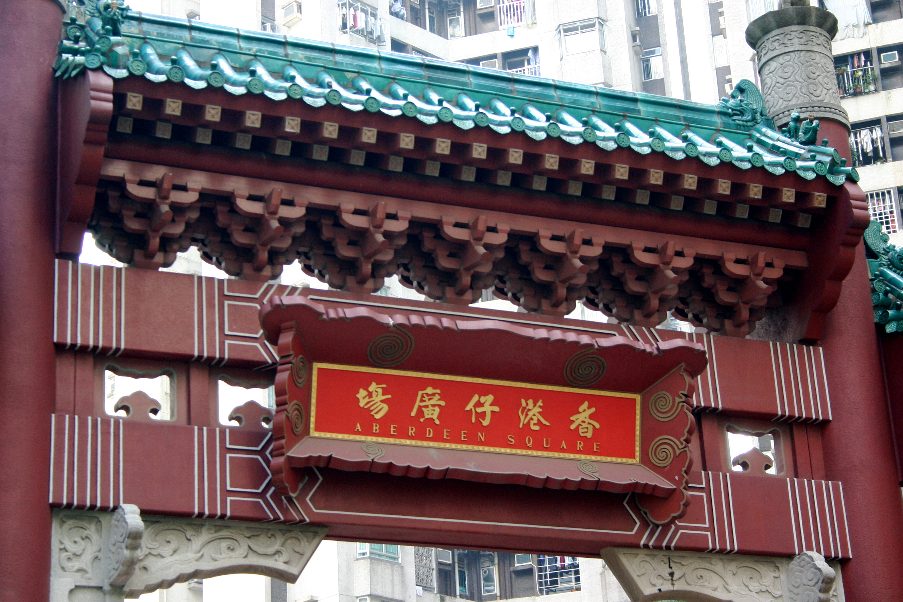 Aberdeen, Hong Kong, 2004 by Andrew Lih